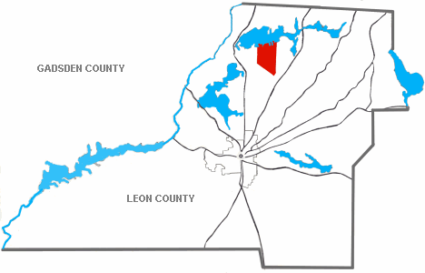 Map of Kinhega Lodge and Bull Run Plantation